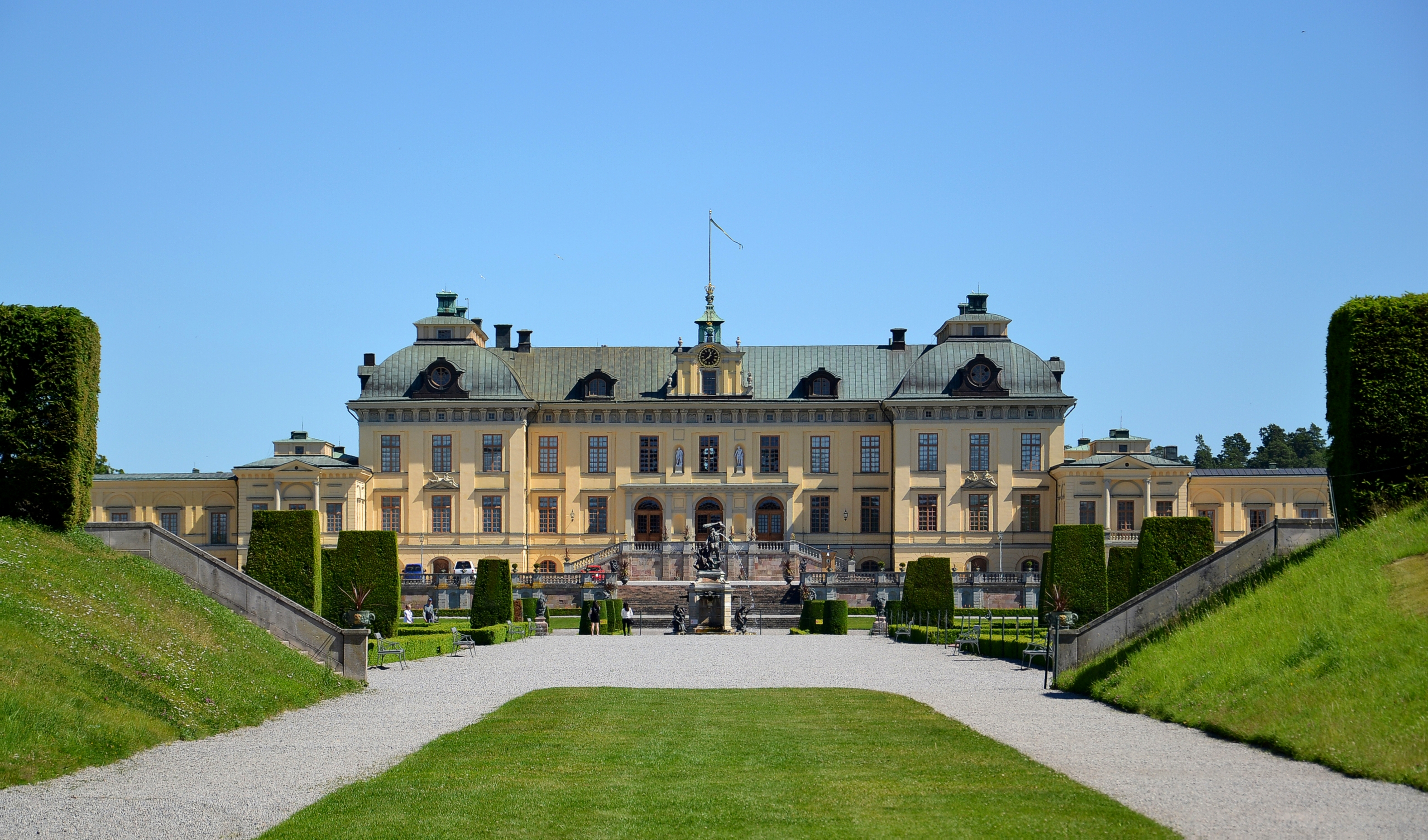 Drottningholm Palace, Sweden